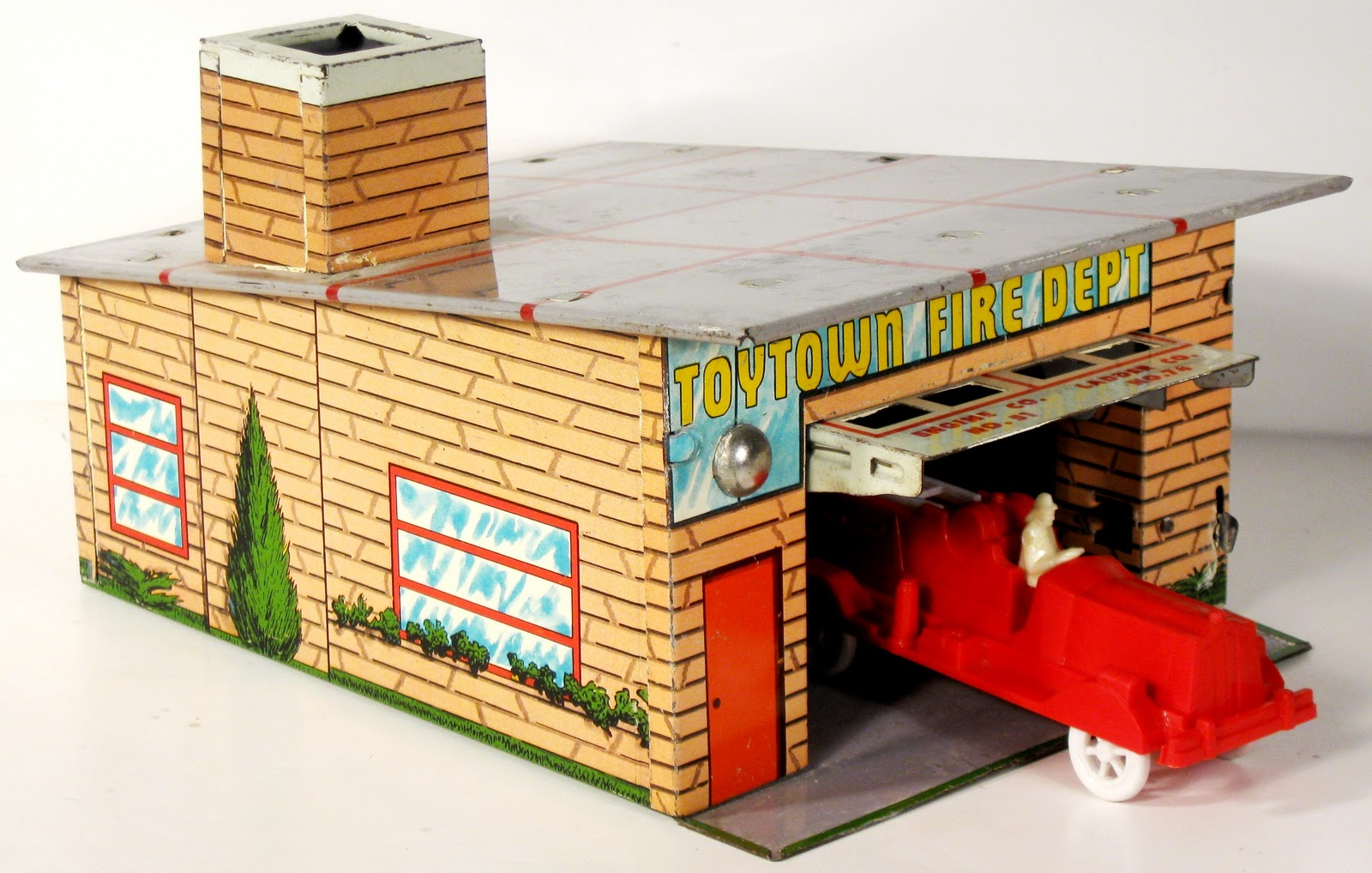 See filename and metadata for description.